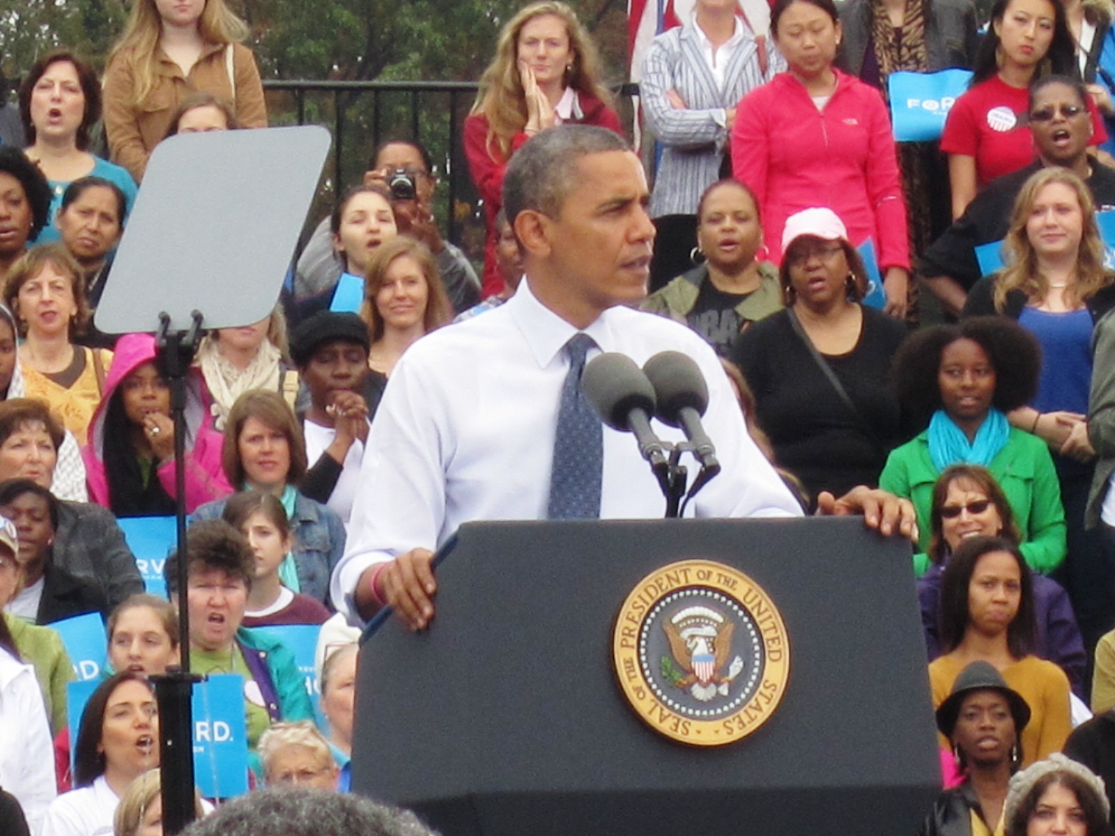 President Obama at George Mason University RAC, October 18, 2012